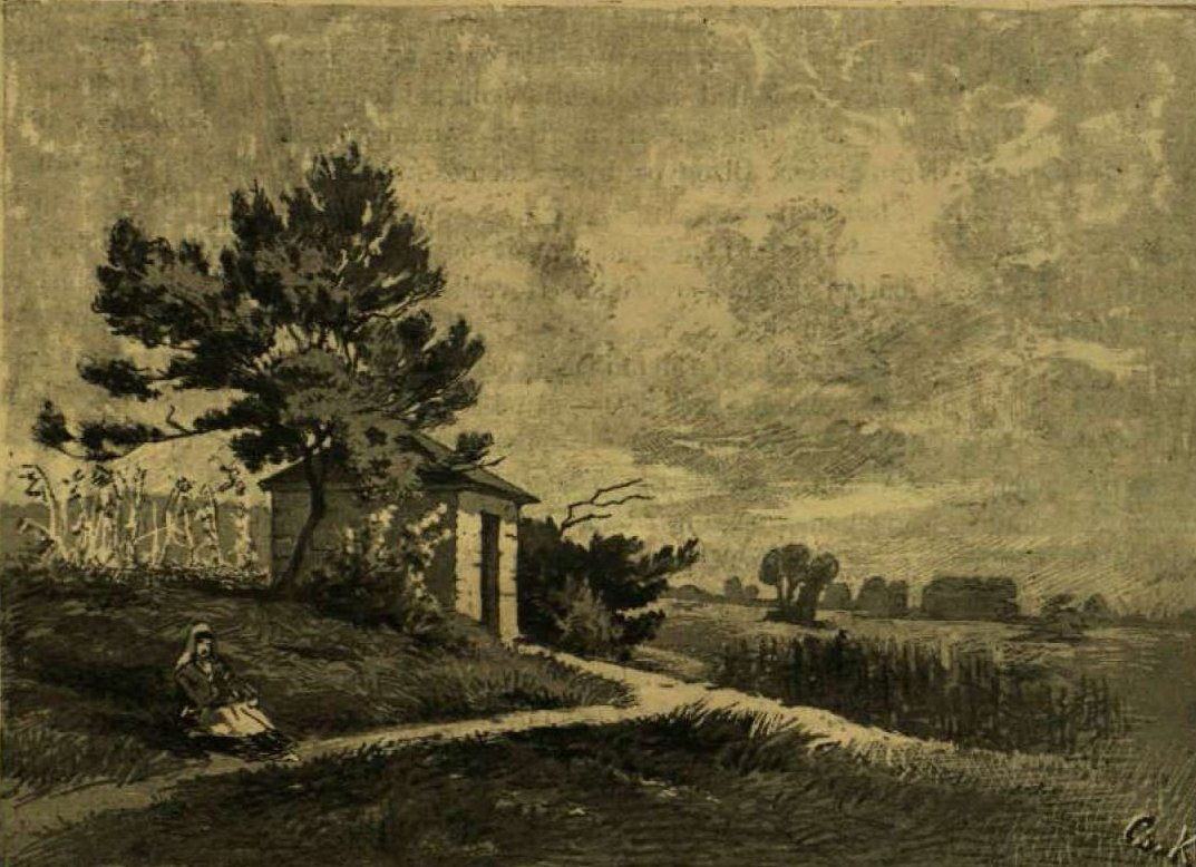 Vörösmarty hut in Fót.